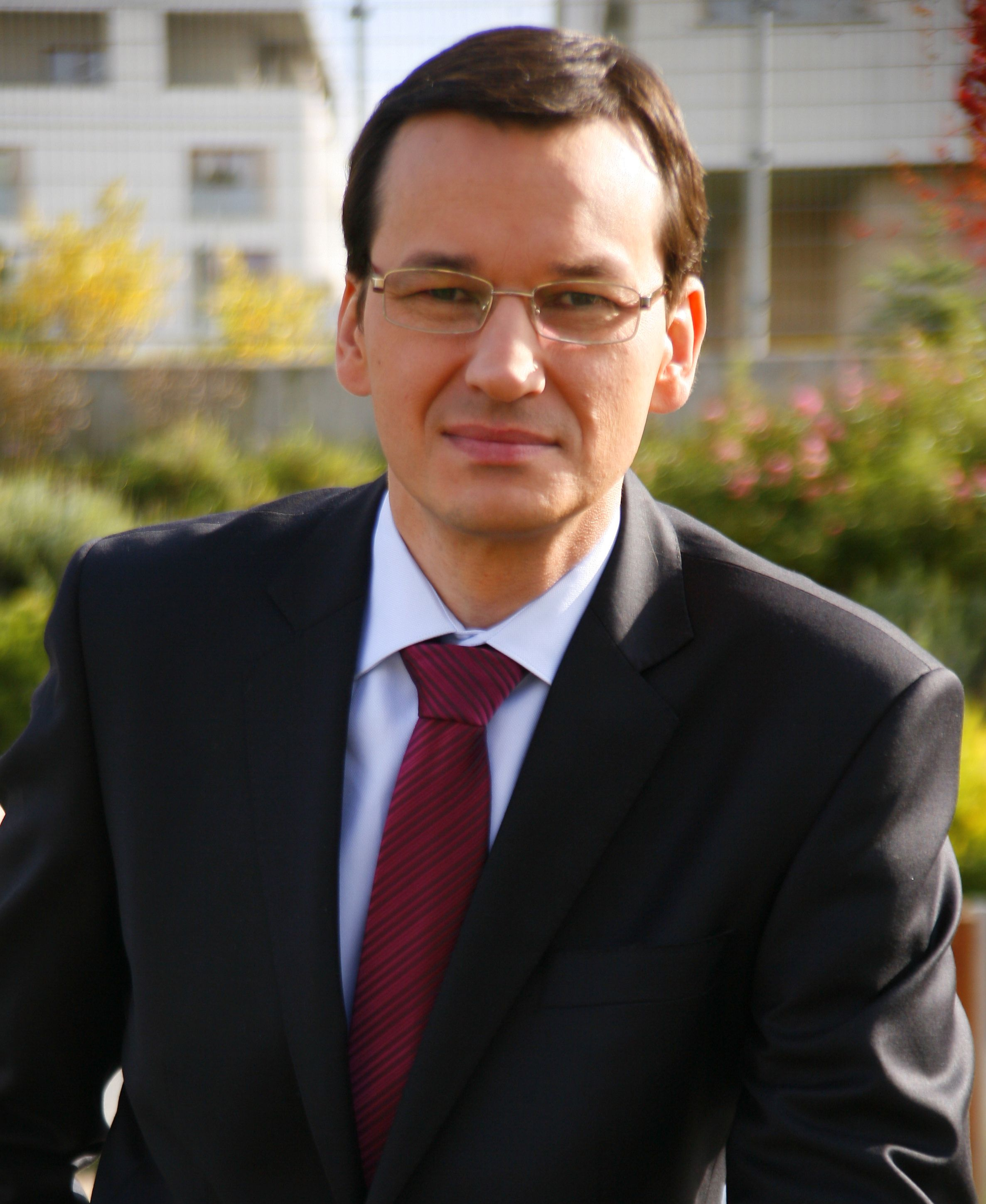 Morawiecki Mateusz, president of polish bank ZB WBK